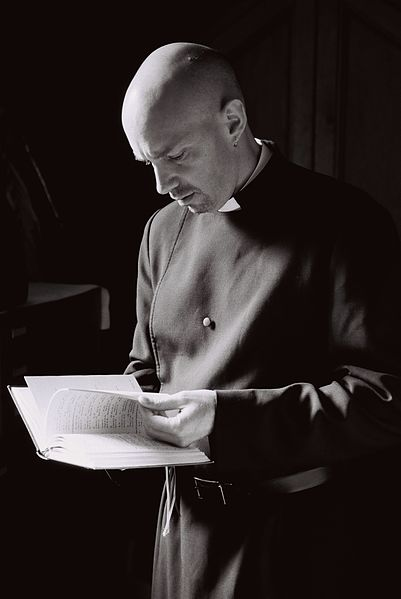 Photo of myself.